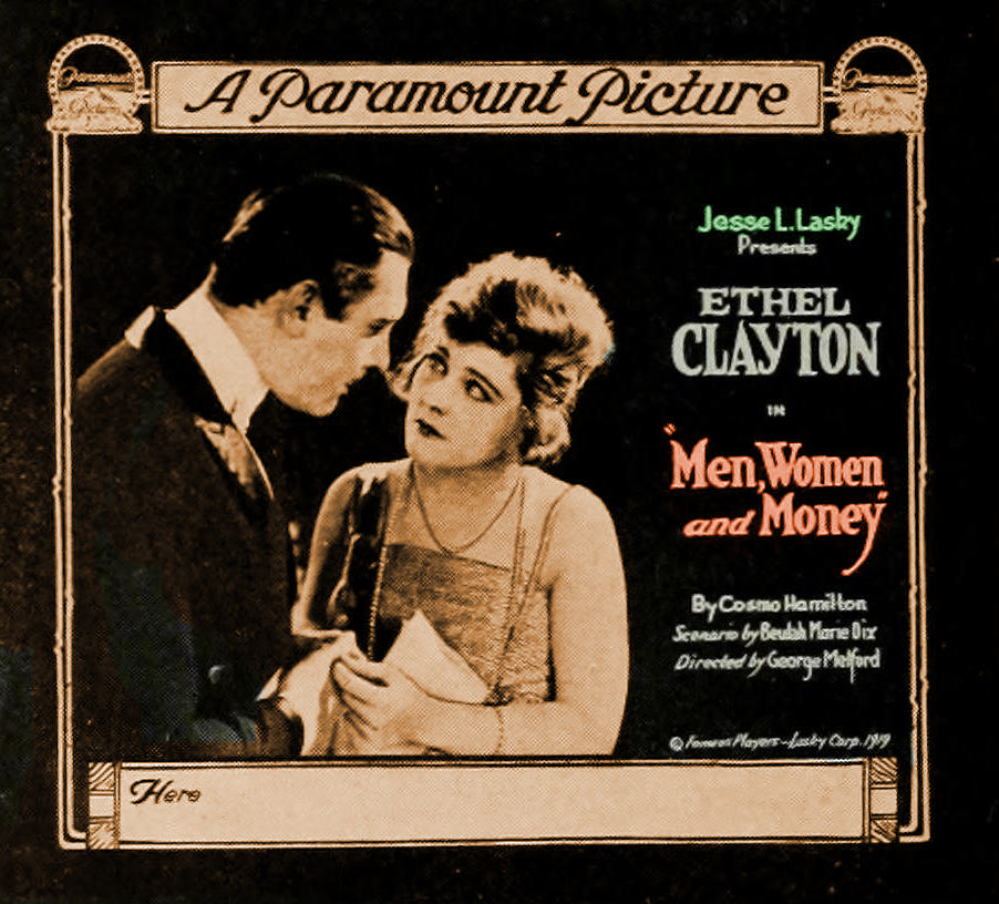 Men, Women, and Money is a lost 1919 American drama silent film directed by George Melford and written by Beulah Marie Dix and Cosmo Hamilton. This is a lantern slide.